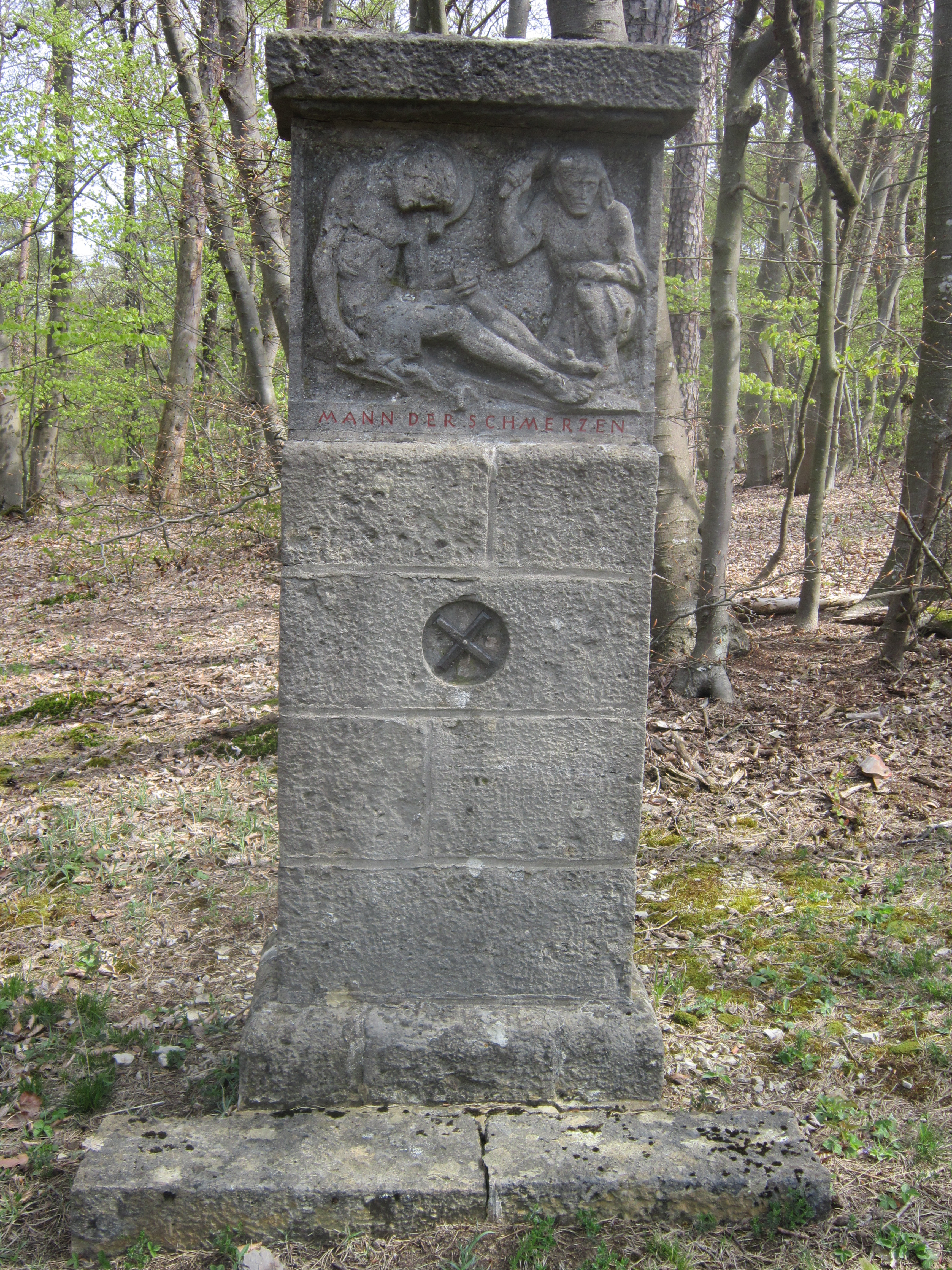 11th Station of the Cross at the Kohlenbergkapelle in the German town of Fuchsstadt in Lower Franconia (Bavaria).